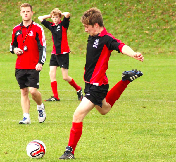 Sutton Grammar School football